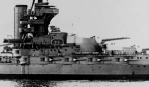 Photograph showing starboard 6-inch gun battery on British battleship HMS Marlborough.